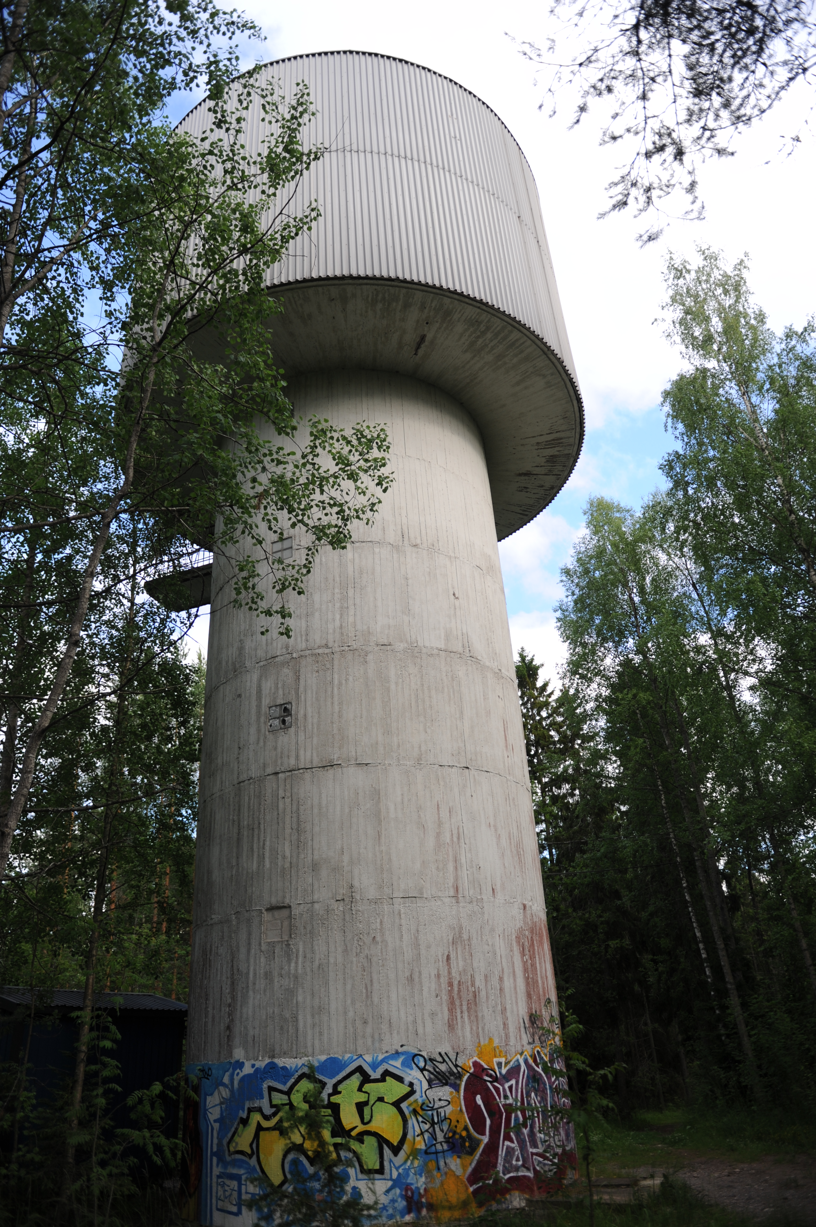 Lakiston vesitorni is a water tower in Espoo, Finland.